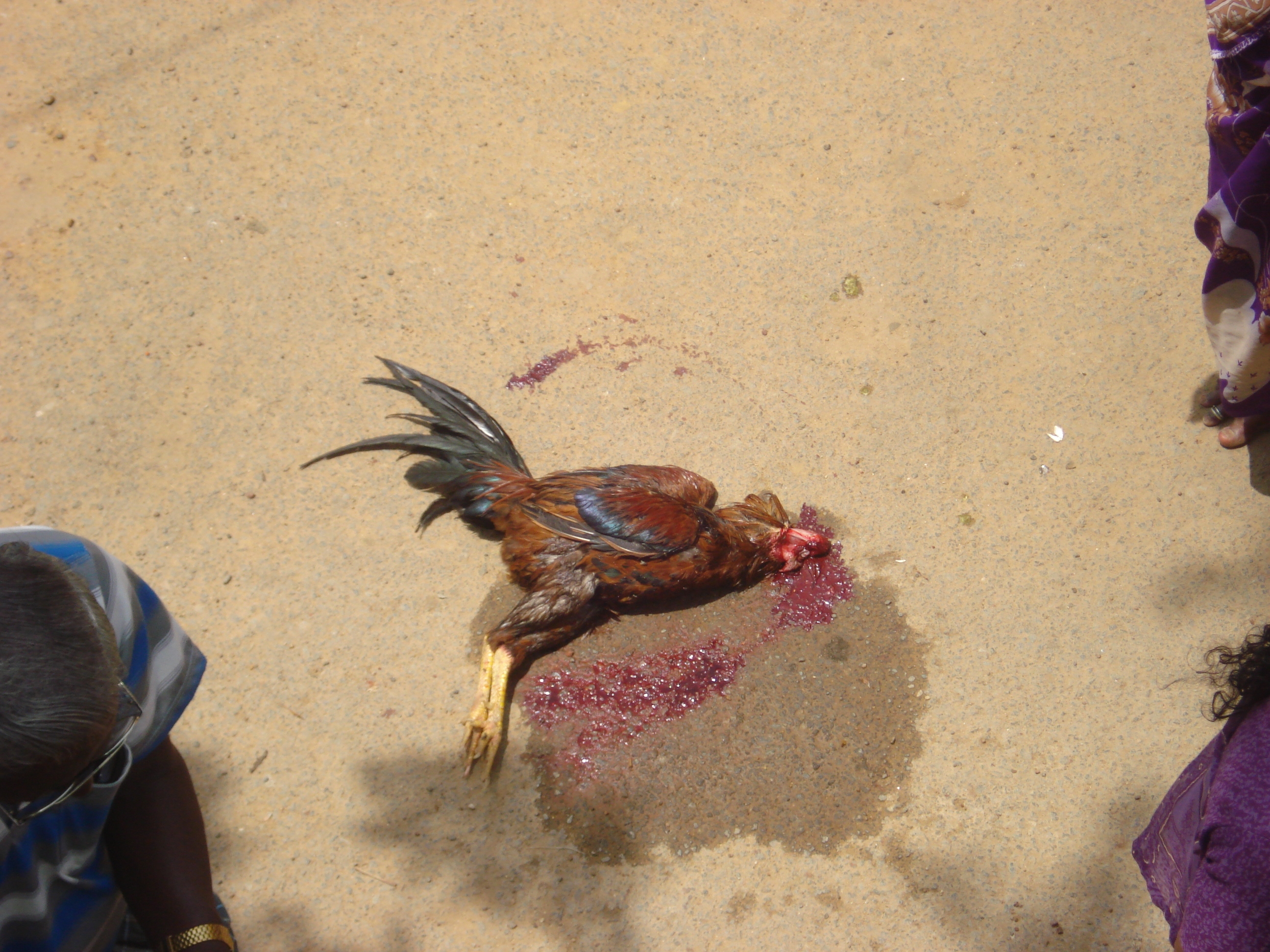 Headless rooster